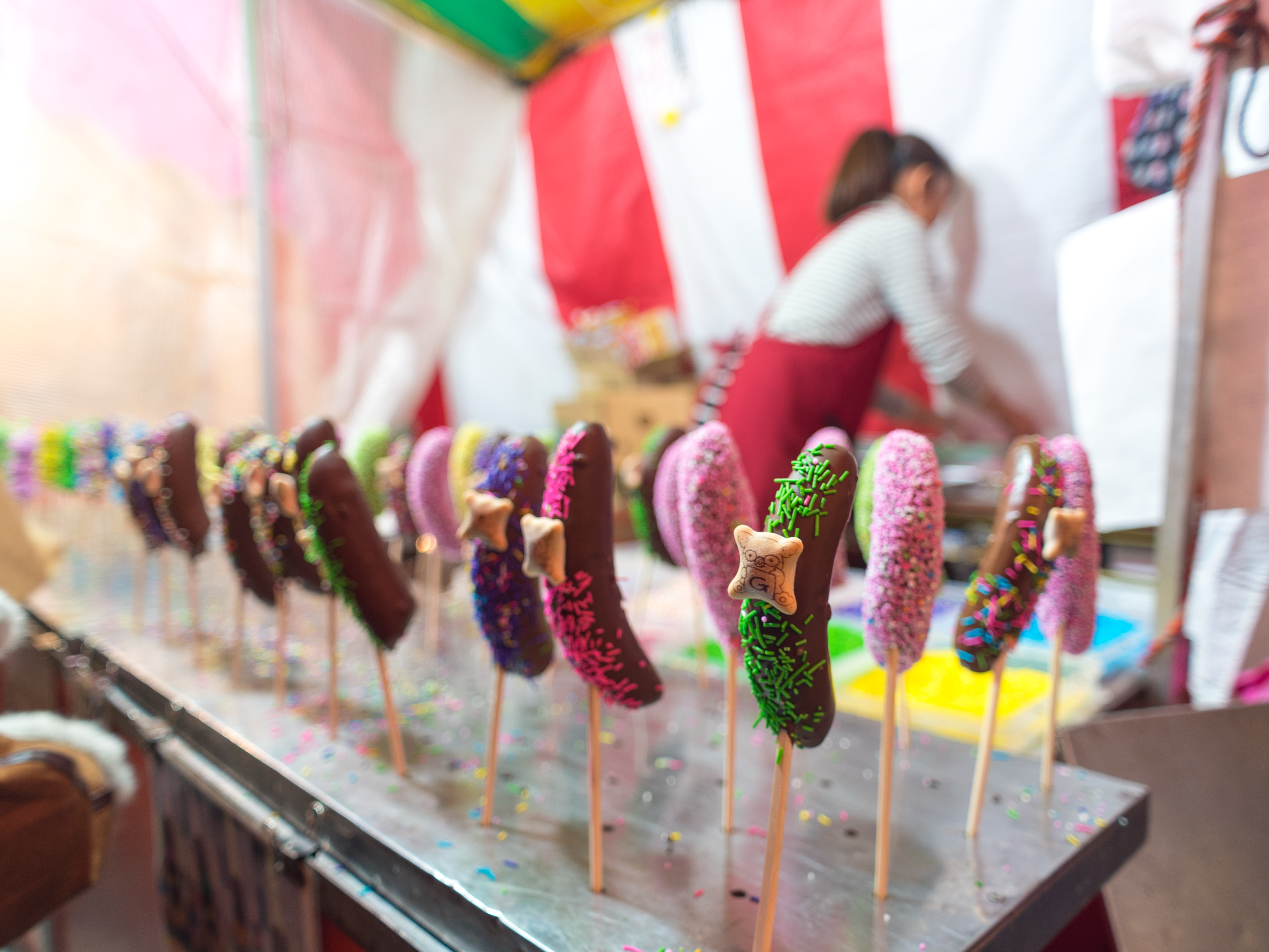 Chocolate bananas